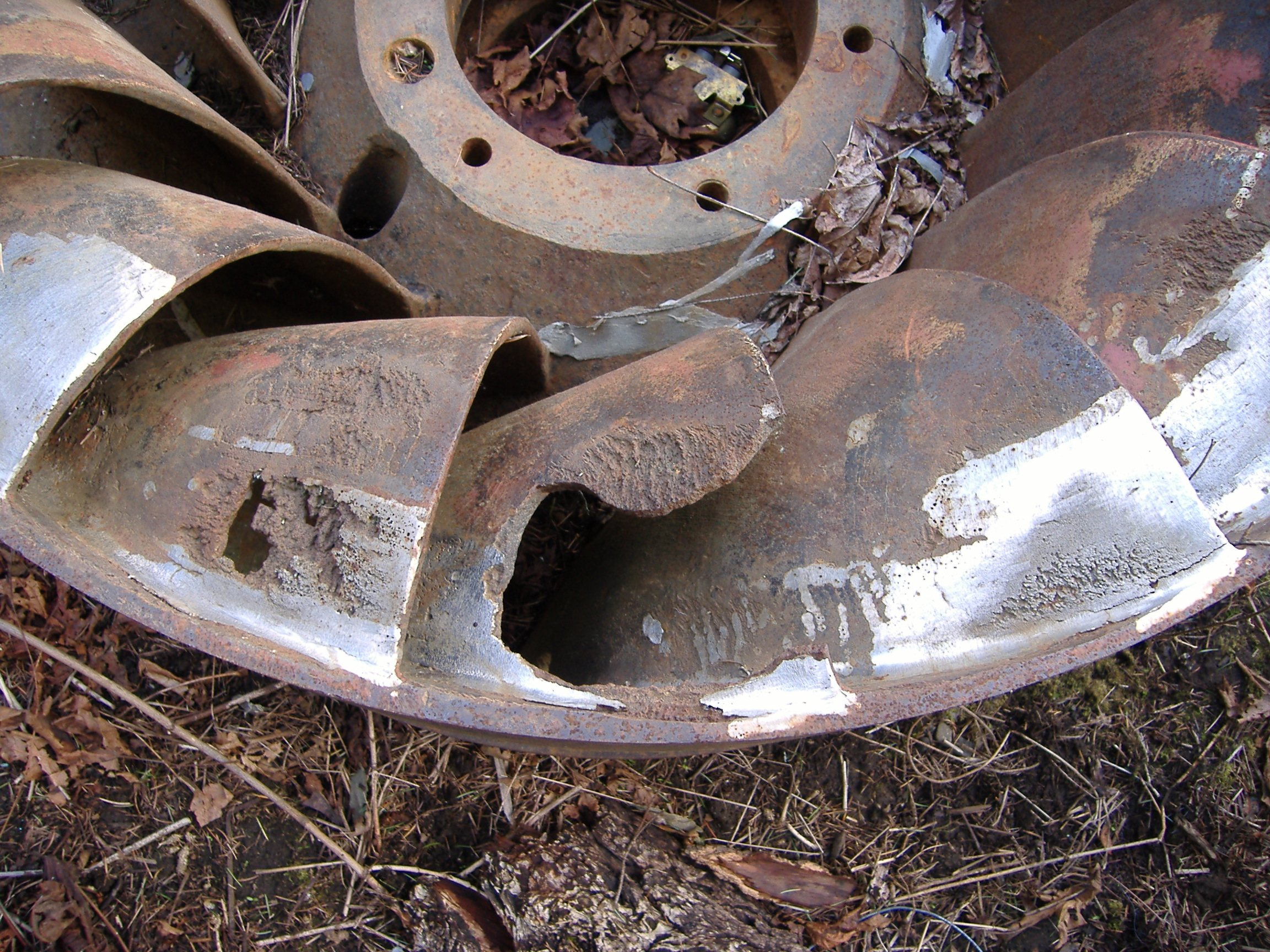 Francis turbine, cavitation damage and old repairs with stainless steel welding